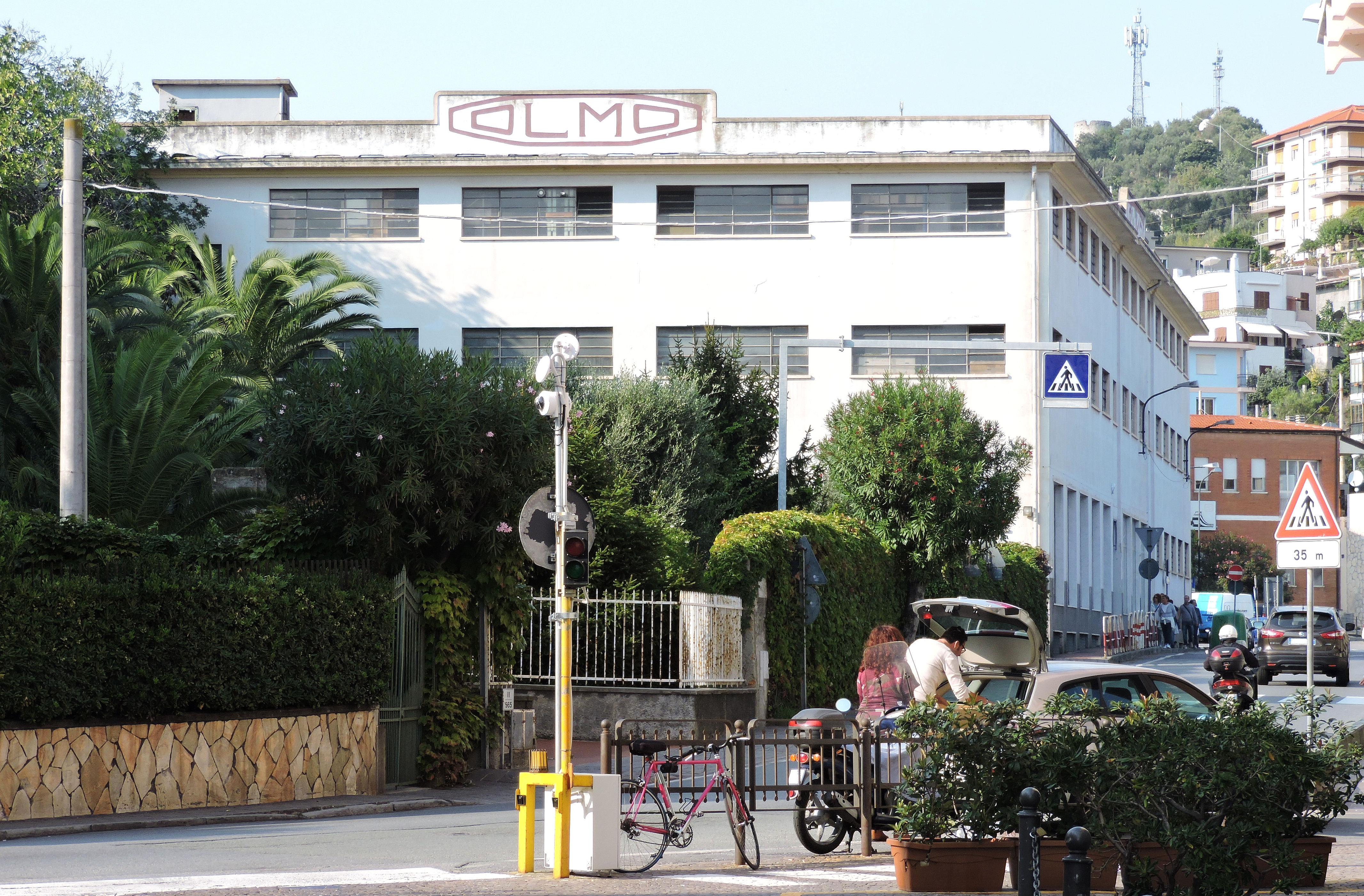 Celle Ligure (SV, Italy): Olmo bicycle manufacture